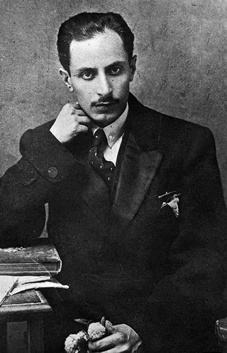 Mir Mohammad-Reza Kurdistani (Mir-zadeh Eshghi) (2)